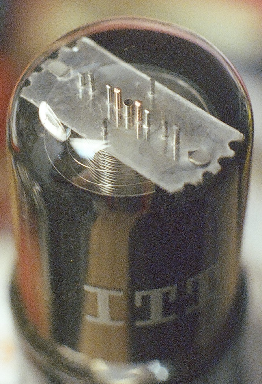 This is a close up of the grids in a 12SA7GT Pentagrid converter tube, as might be found in an All American 5 Tube radio. You can see that the grids are different from each other